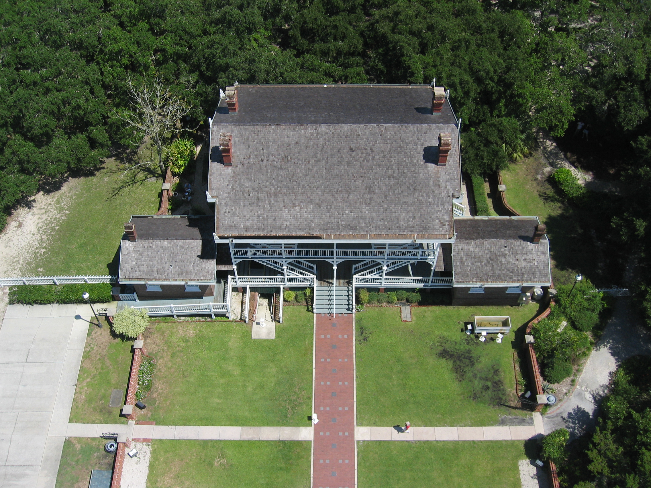 Photo of the St. Augustine Lighthouse outbuildings looking down from the top of the lighthouse tower in St. Augustine, Florida, USA.